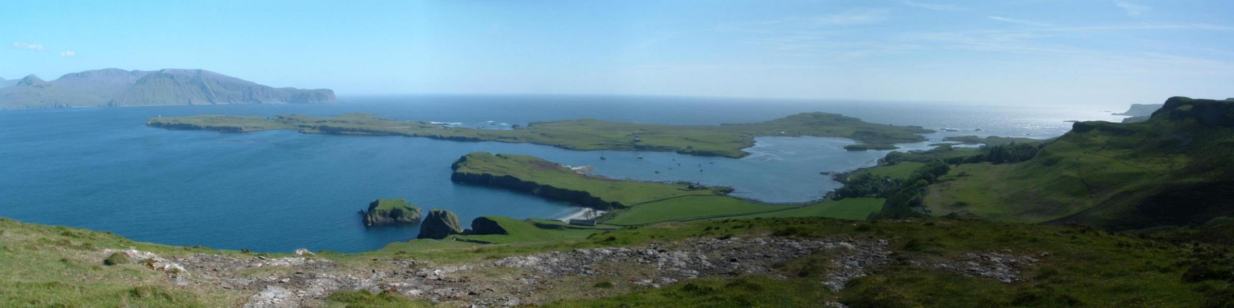 Panorama of the Isle of Canna, outermost of the Small Isles on the west coast of Scotland, Panorama taken from Compass Hill on Canna, overlooking Canna Bay and Sanday towards Rùm.